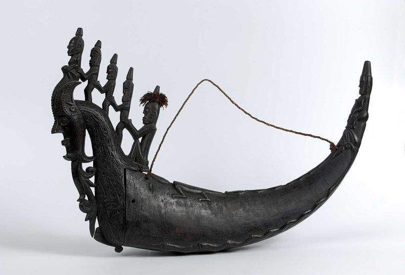 Ritual horn decorated with 5 human figures sitting on the neck of a singa